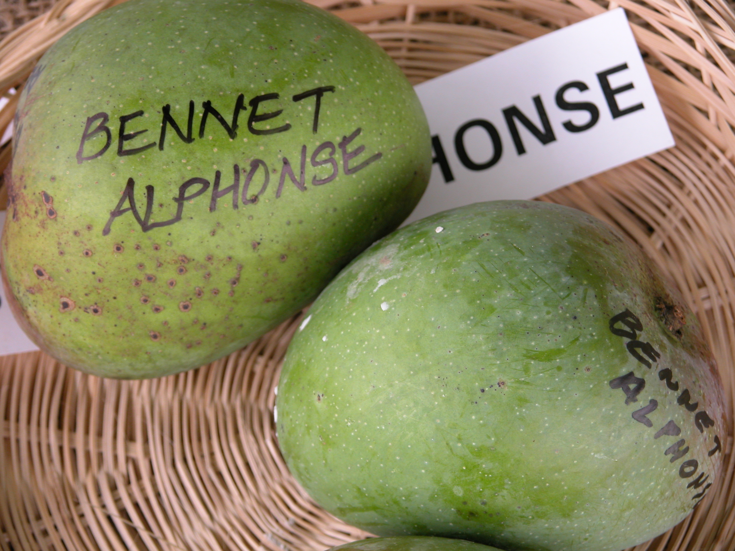 This photo is a display of Bennet Alphonso mango at the Tropical Agricultural Fiesta held in the Fruit And Spice Park in Homestead, Florida.